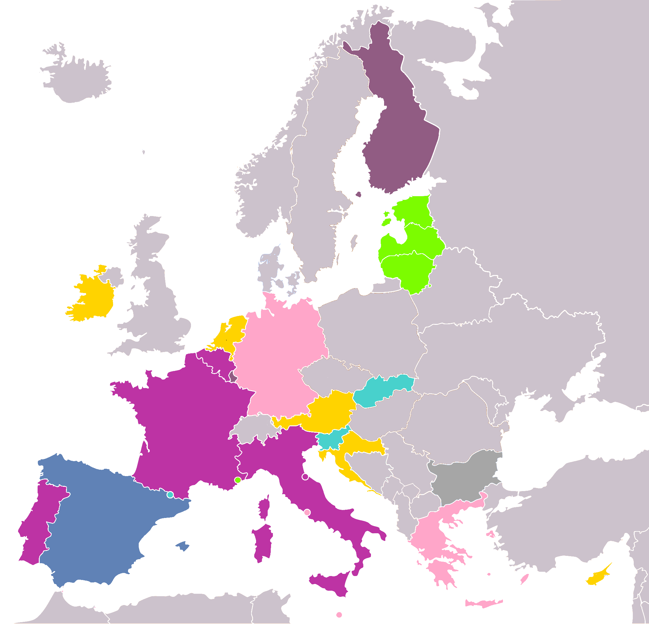 Color-coded map of Eurozone countries by number of €2 commemorative coins issued.See also Image:European Union commemorative 2 euro coins.png.